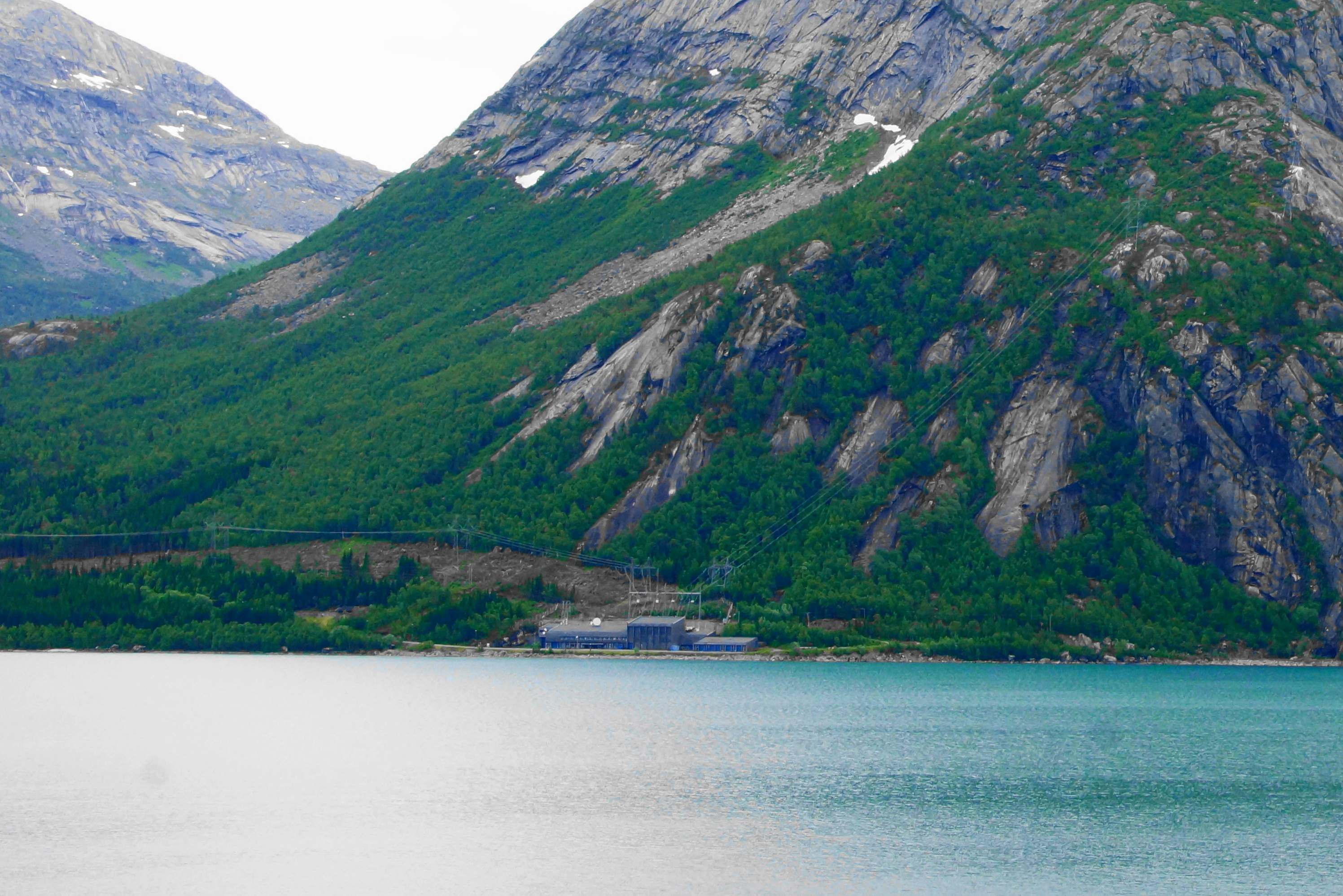 Kobbvatn lake in Sørfold in Nordland. Kviturtinden is the peak over the lake. It has outlet to the southwest to Kobbelv. Kobbelv hydroelectric power plant is situated inside the mountain at Kobbvatn. The outdoor part can be seen in the picture.